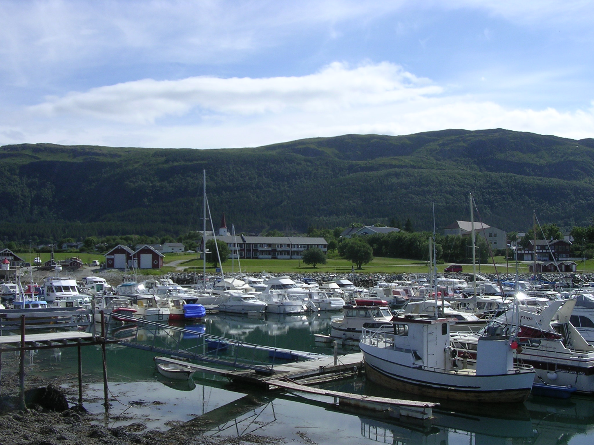 Harbour of Nesna, Nordland, Norway. Nearest boat is a typical fishingboat from North-Norway.